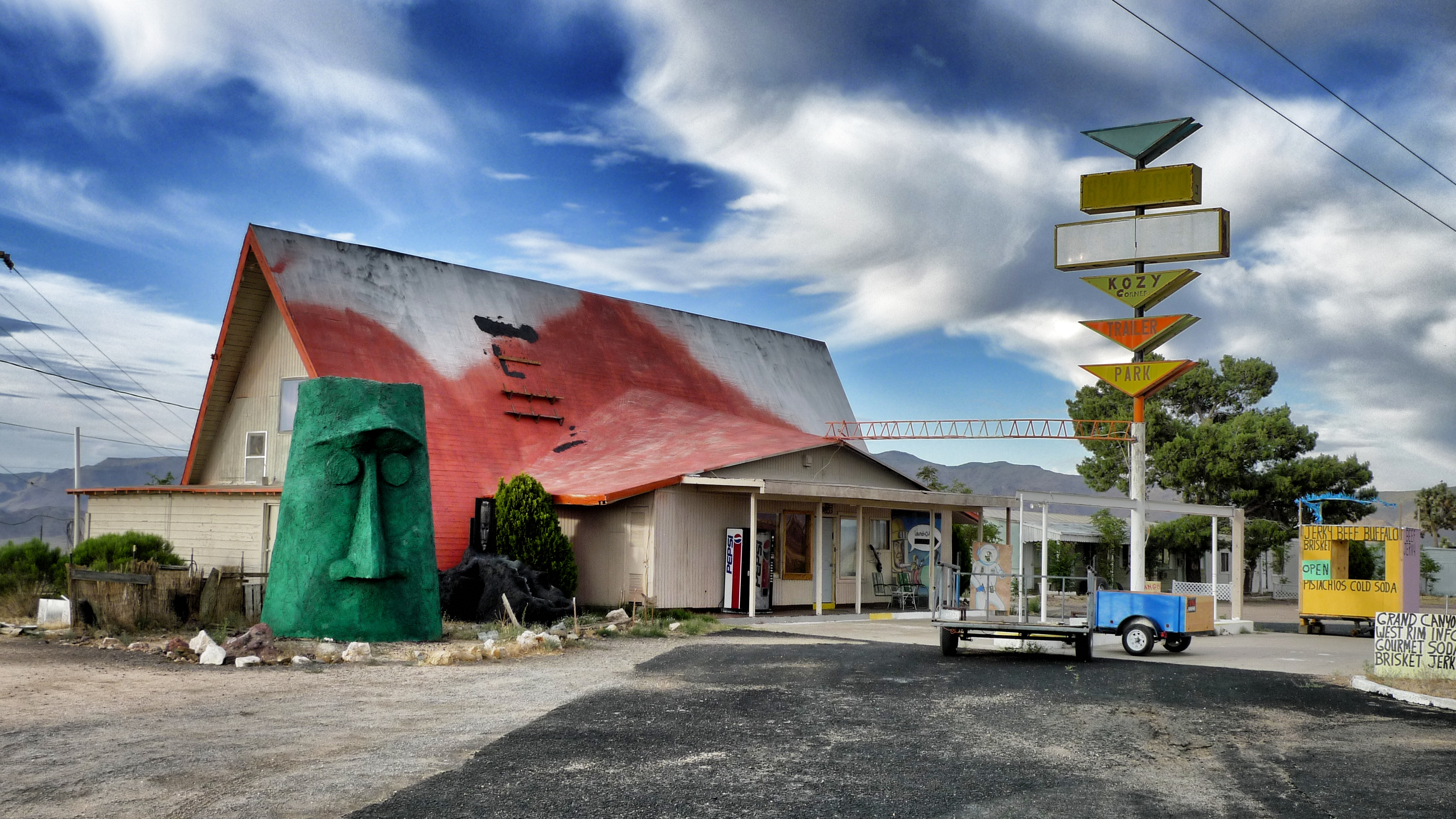 One of many interesting things to see along Route 66.